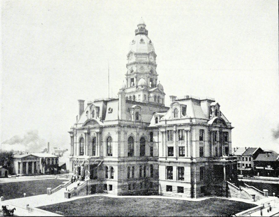 Photo of the Vigo County Courthouse in Vigo County, Indiana published in the 1894 book Art souvenir of representative men, public buildings, private residences, business houses, and points of interest in Terre Haute, Ind.